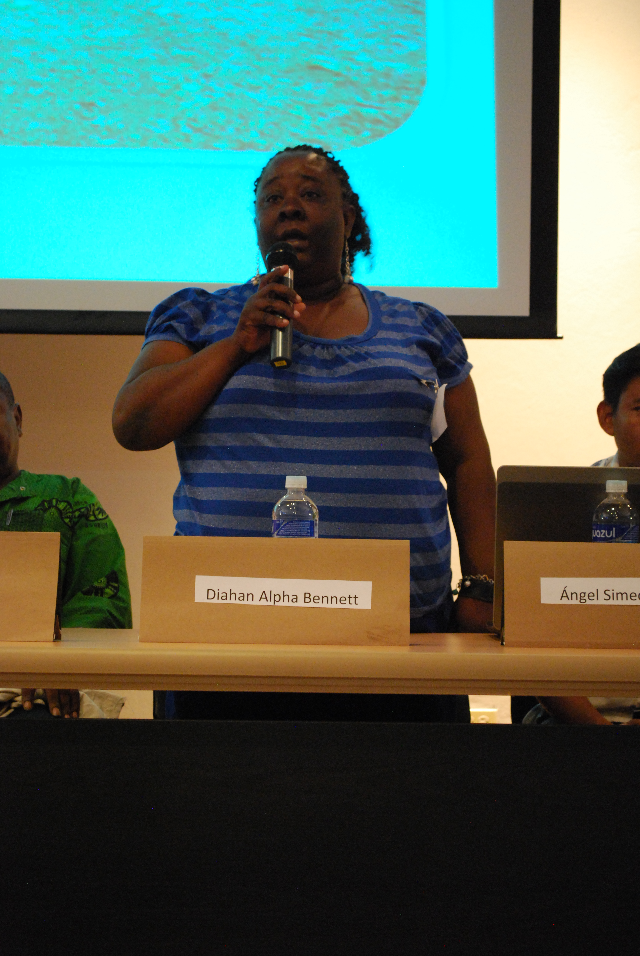 Diahan Alpha Bennett representing the English Creole speaking communities on islands off Honduras' Gulf coast at a forum of the ACALing conference at the Universidad Nacional Autónoma de Honduras